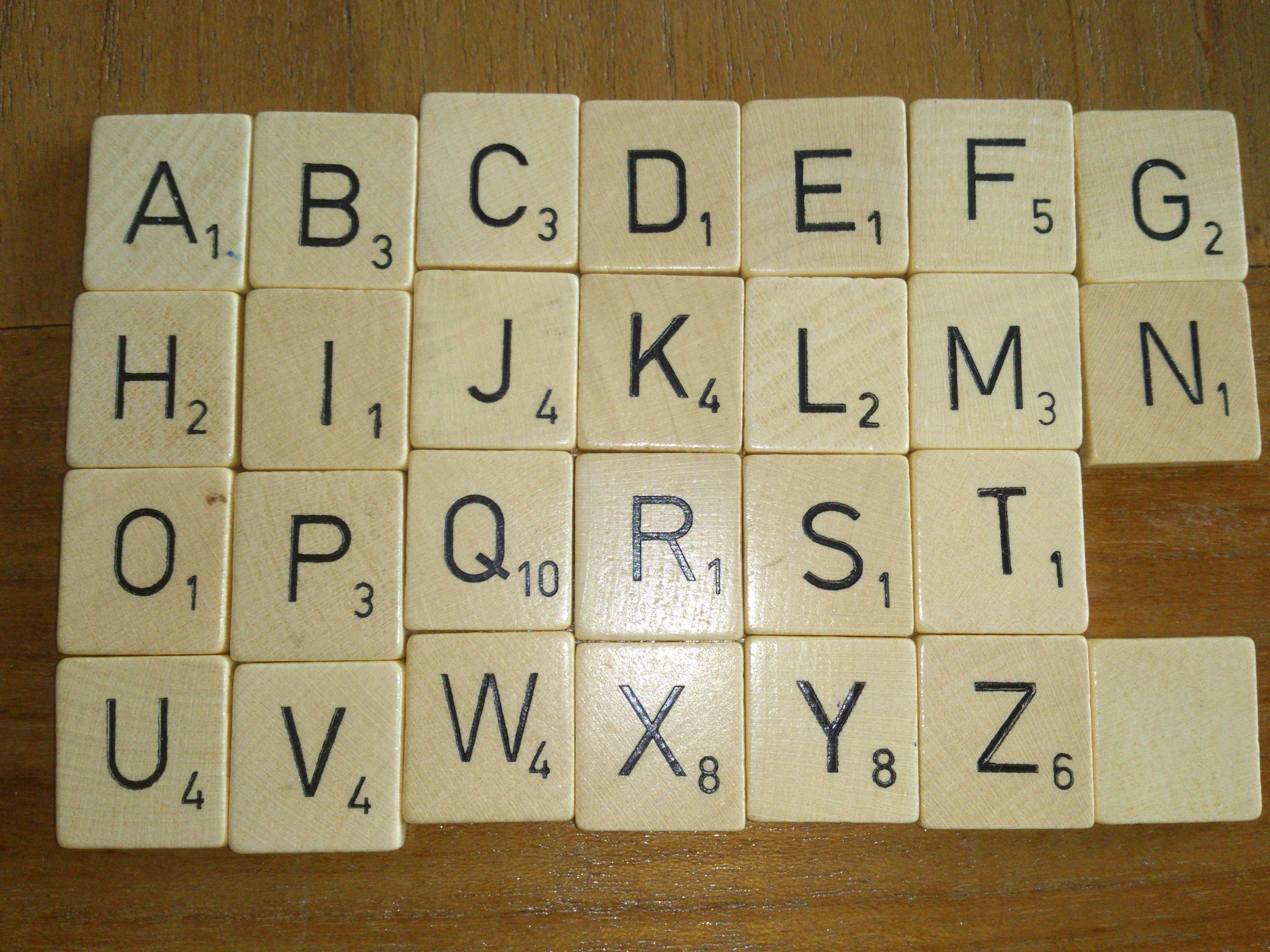 Photo of the letters from an older Dutch Scrabble game well visible with values